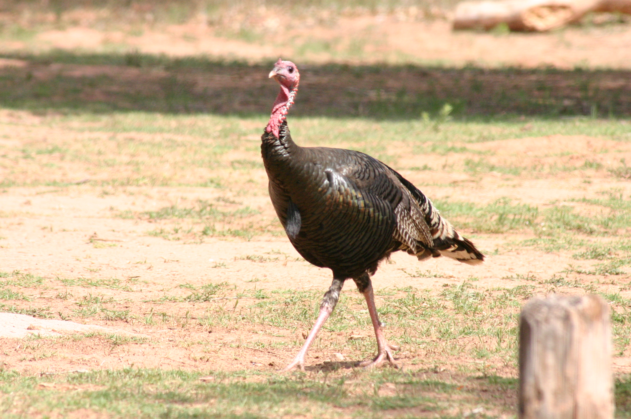 Wild Turkey Meleagris gallopavo intermedia walking on a grassland in the bottom of the canyon. Taken at Palo Duro Canyon State Park, Canyon, Texas, USA.